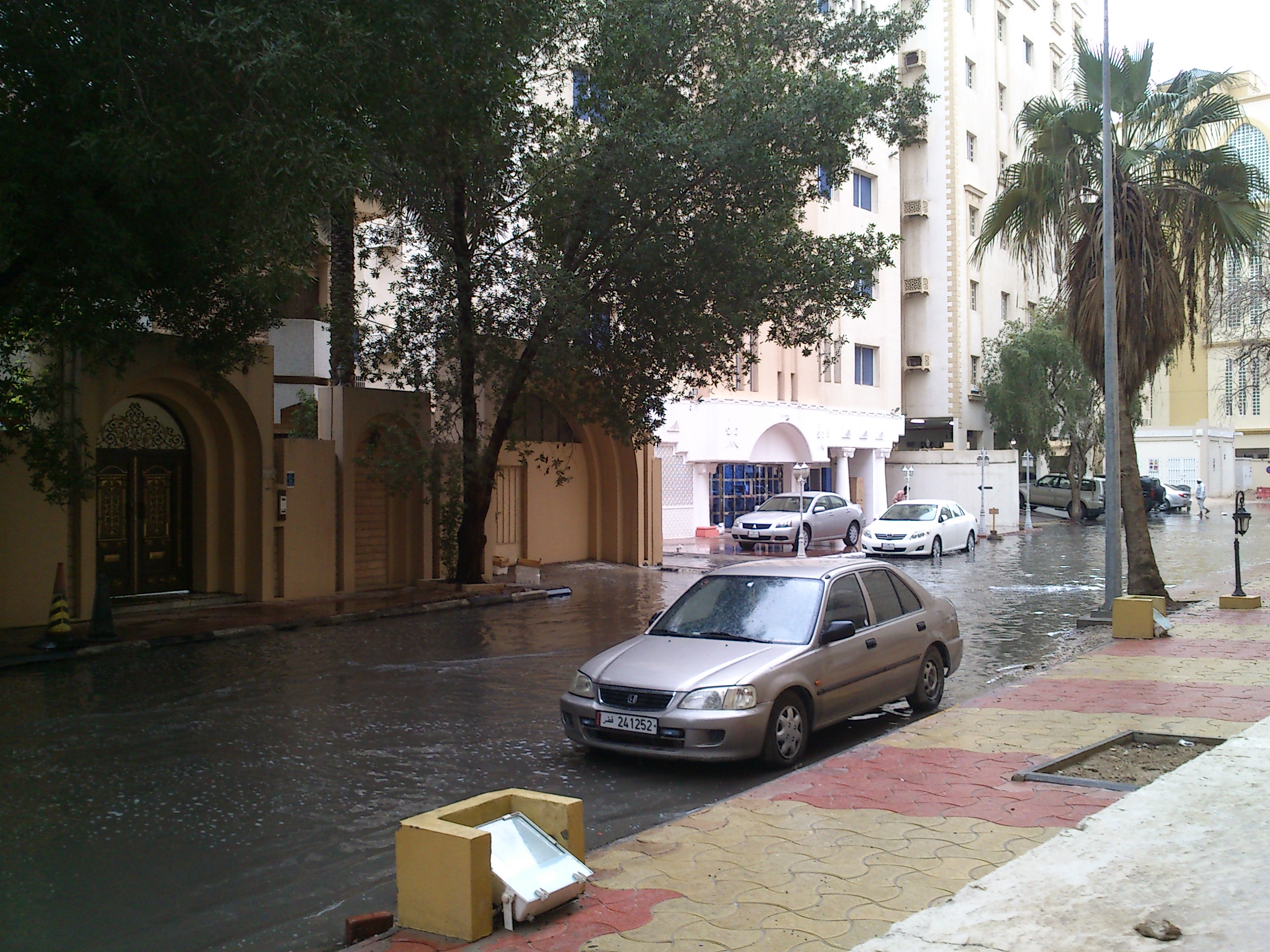 Flooding caused by spring showers in the Al Mansoura district of Doha, Qatar in 2014.